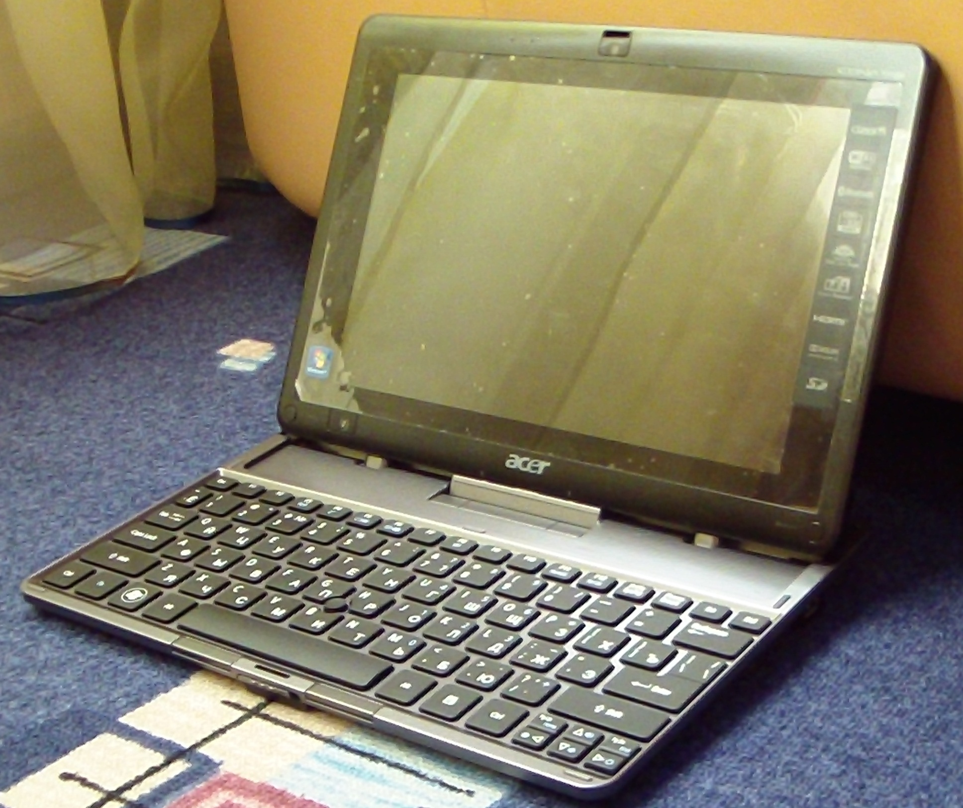 Acer Iconia Tab W500